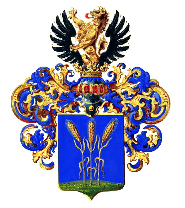 Coat of Arms of family Olderogge